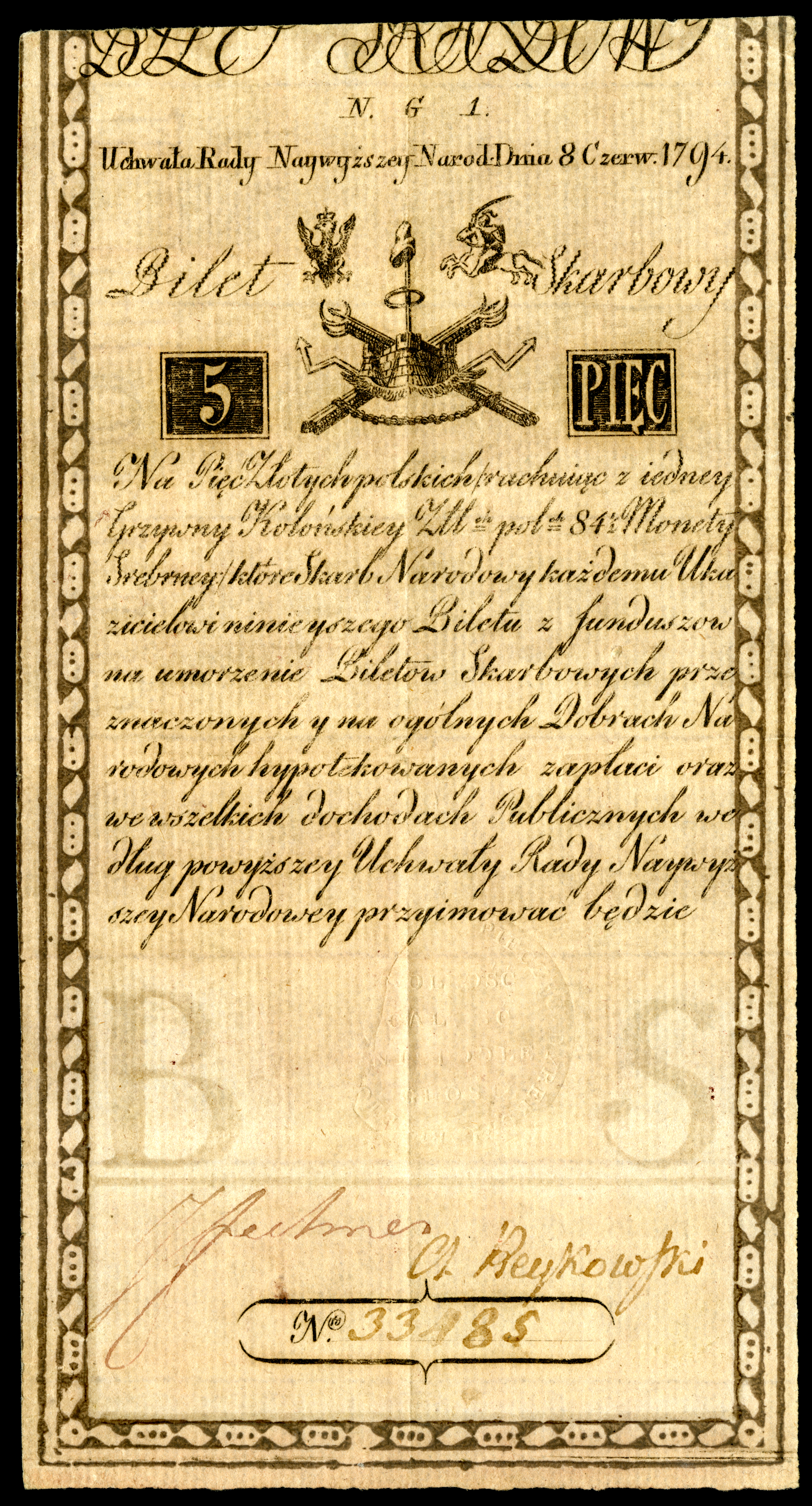 Bilet Skarbowy (Treasury note)-5 Zlotych (1794, First Issue) Dated 8 June 1794, with signatures of J. Fechner & A. Reyhowski. This note is from the first issue of banknotes by the Polish–Lithuanian Commonwealth, and was authorized by Tadeusz Kościuszko.